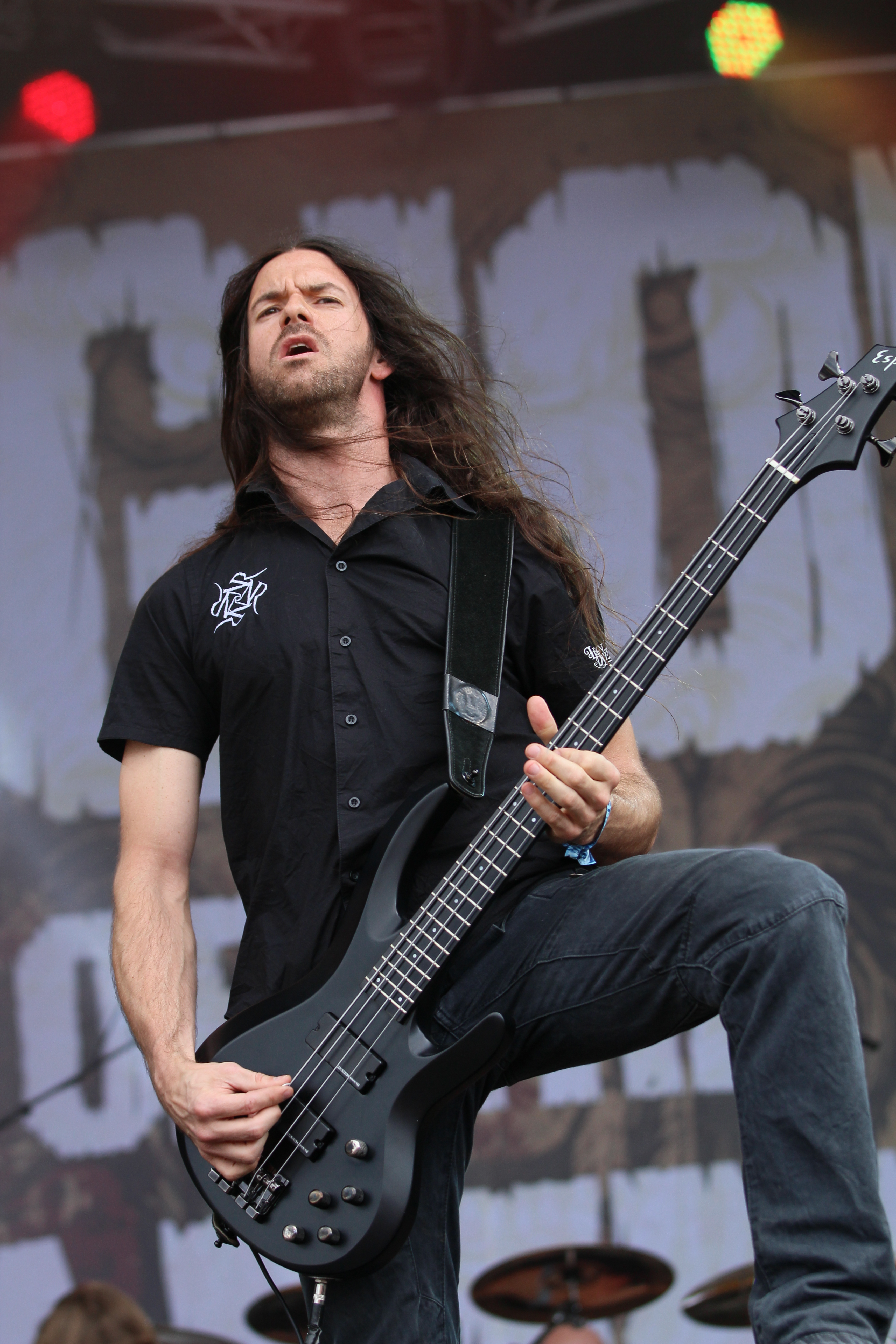 The Dutch death metal/thrash metal band Legion of the Damned at the Rockharz Open Air 2014 in Ballenstedt/Germany